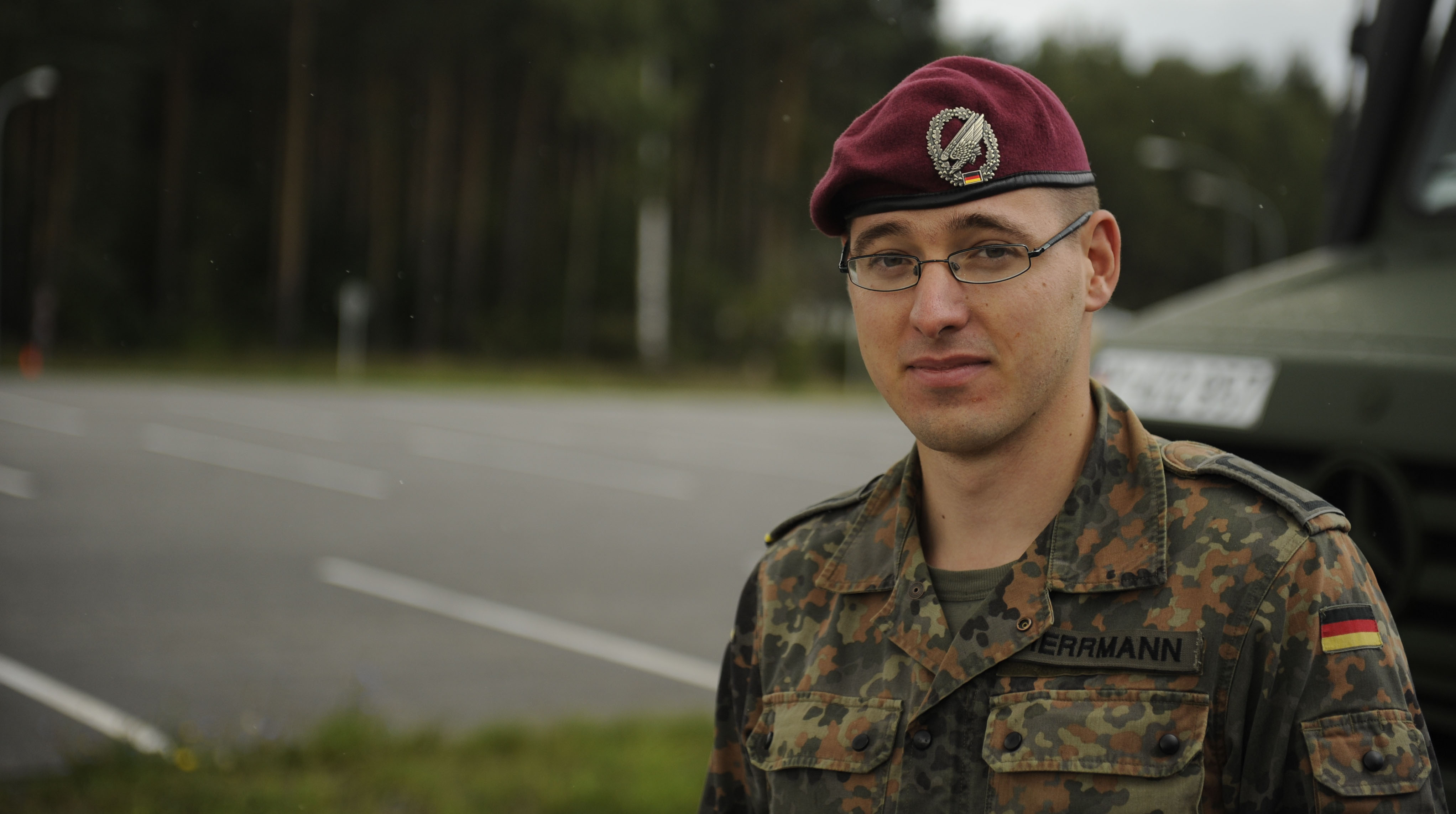 German army Sgt. Stefan Herrmann, with the 2nd German Airborne Signal Battalion, guards one of his battalion's vehicles and its equipment during Combined Endeavor Aug. 31, 2010, in Grafenwoehr, Germany. Combined Endeavor, a communications interoperability exercise, prepares international forces' command, control, communications and computer systems for multinational operations.